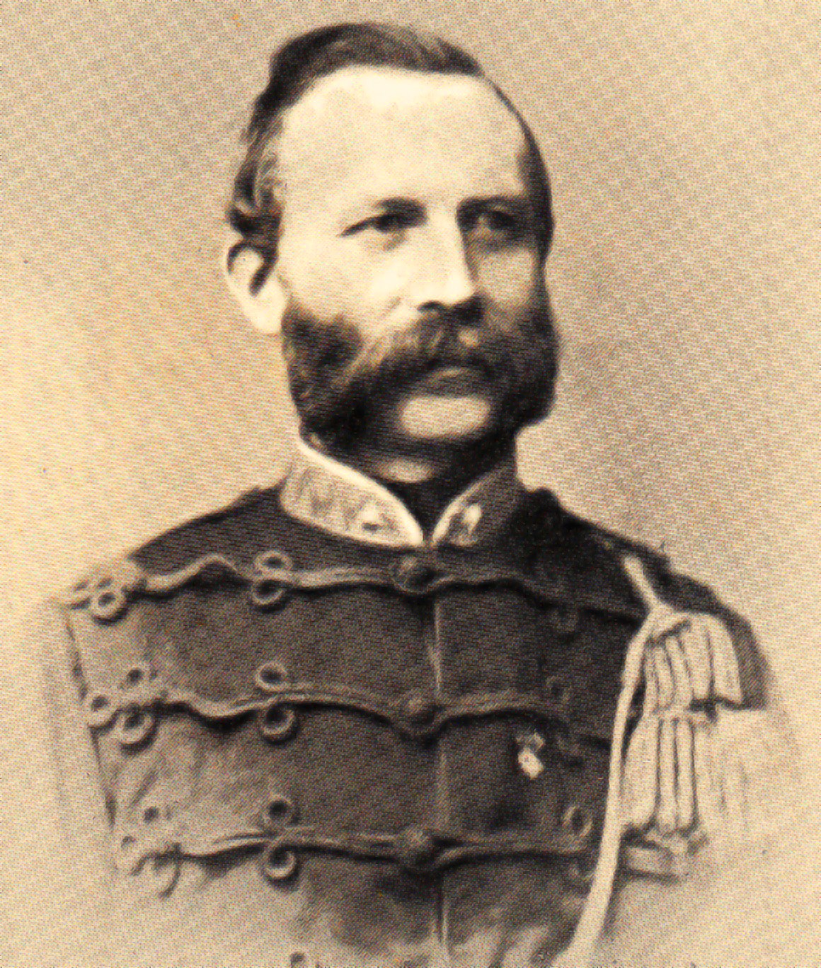 Van der Star